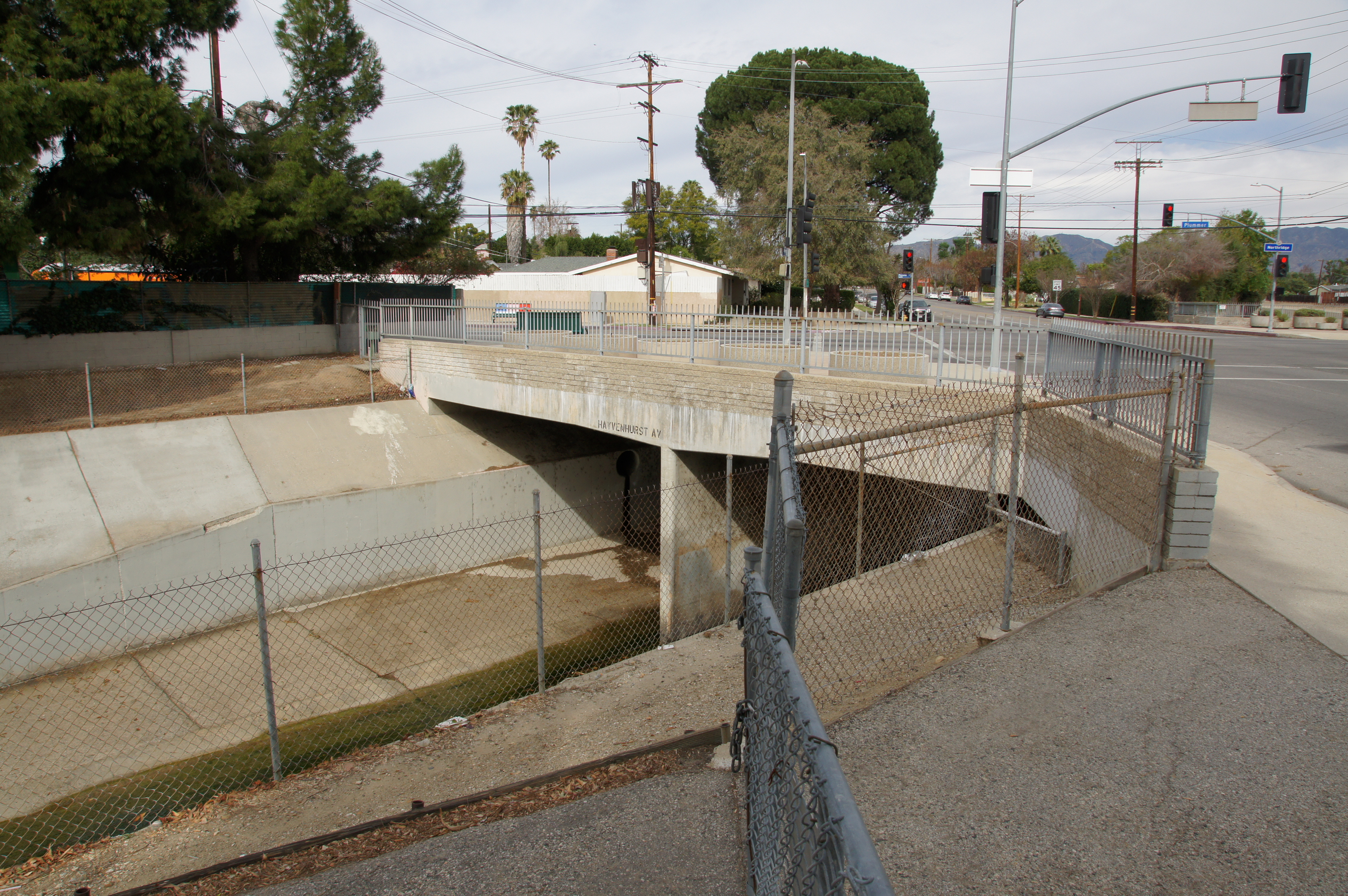 Terminator-2 movie location